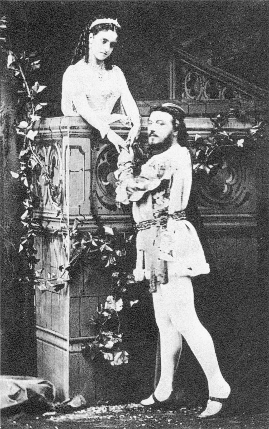 Adelina Patti and Mario in Act 2 of Gounod's Roméo et Juliette in the first London production at the Royal Opera House, Covent Garden, which was first presented on 11 July 1867